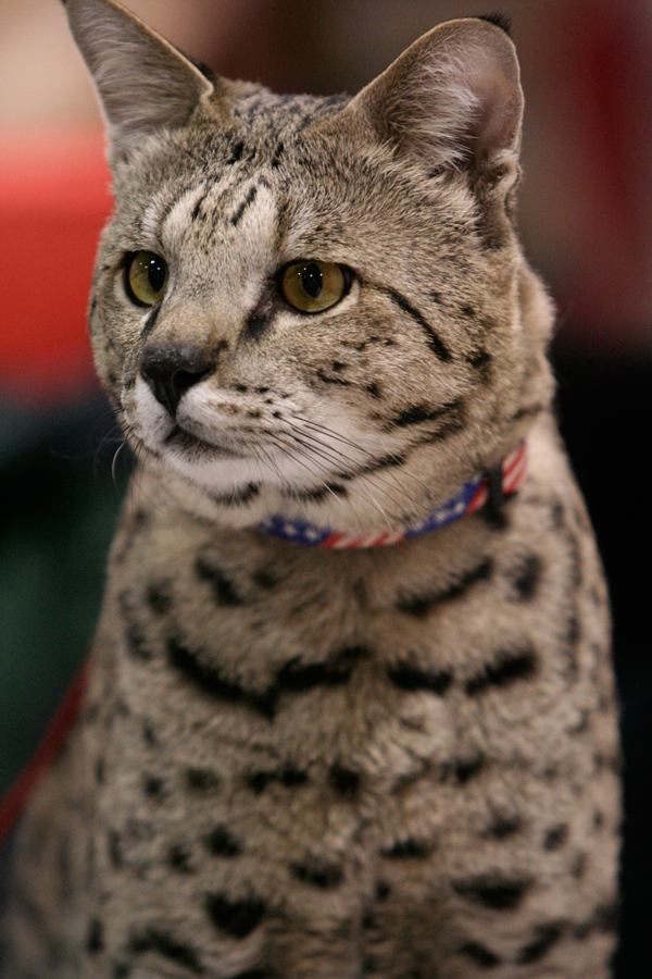 Matahah Me Al (Motzie ) is F2 savannah.